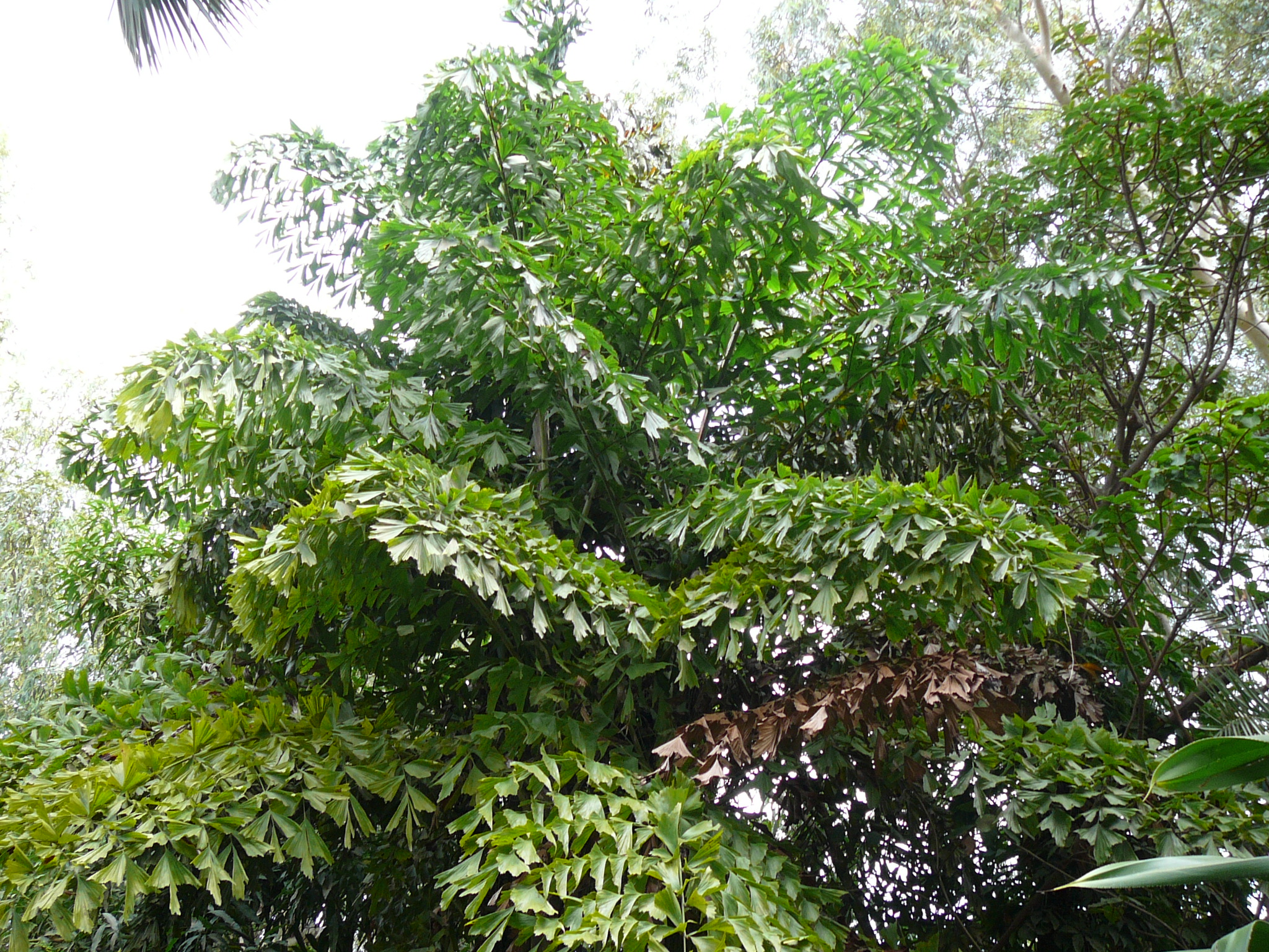 Fishtail Palm